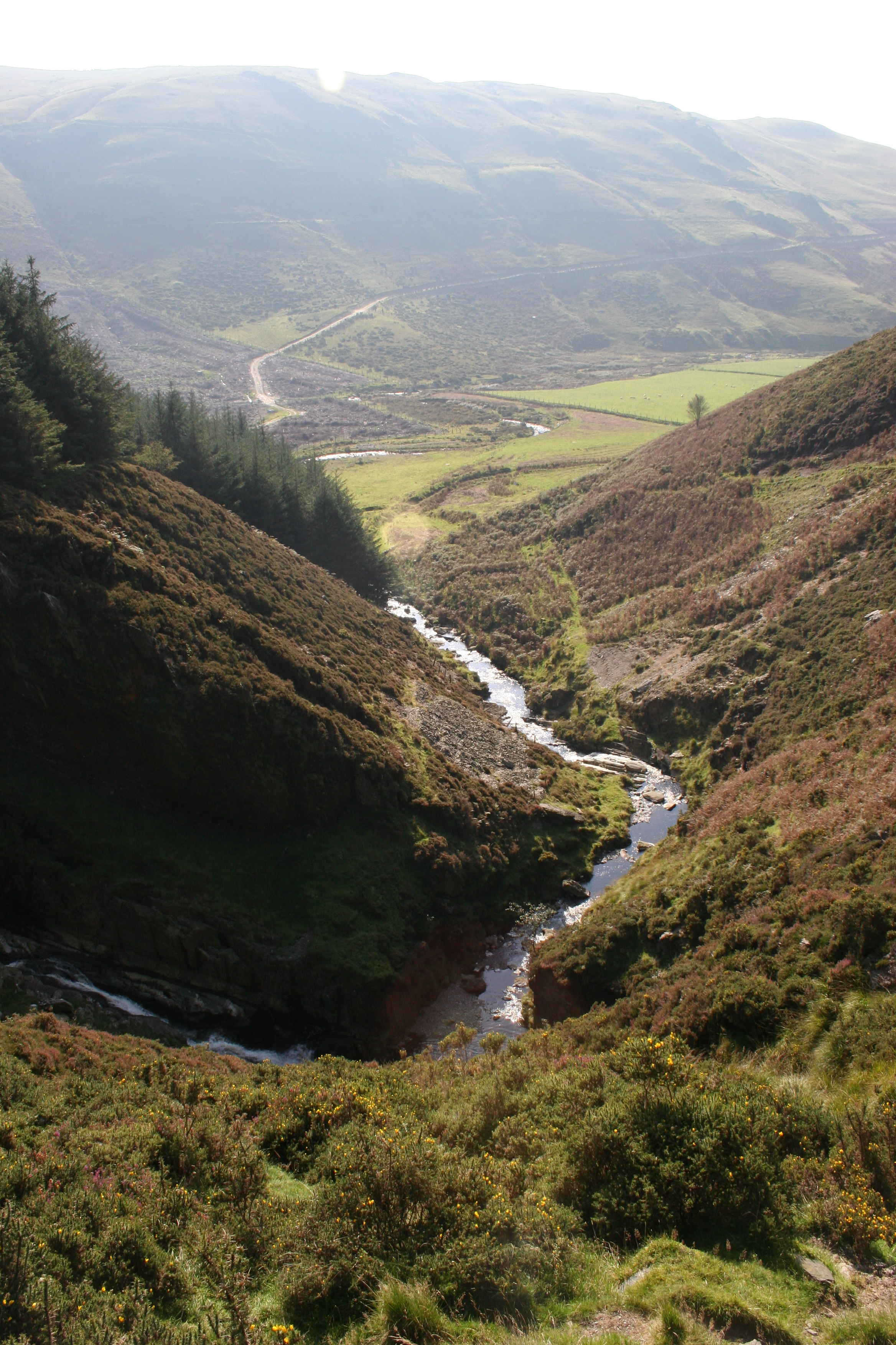 Looking (carefully) down Craig y Pistyll The narrow path crosses a steep and exposed gravel/scree slope and although I have walked it several times in both directions I am usually concentrating on not slipping rather than on taking a photo of the excellent view down.